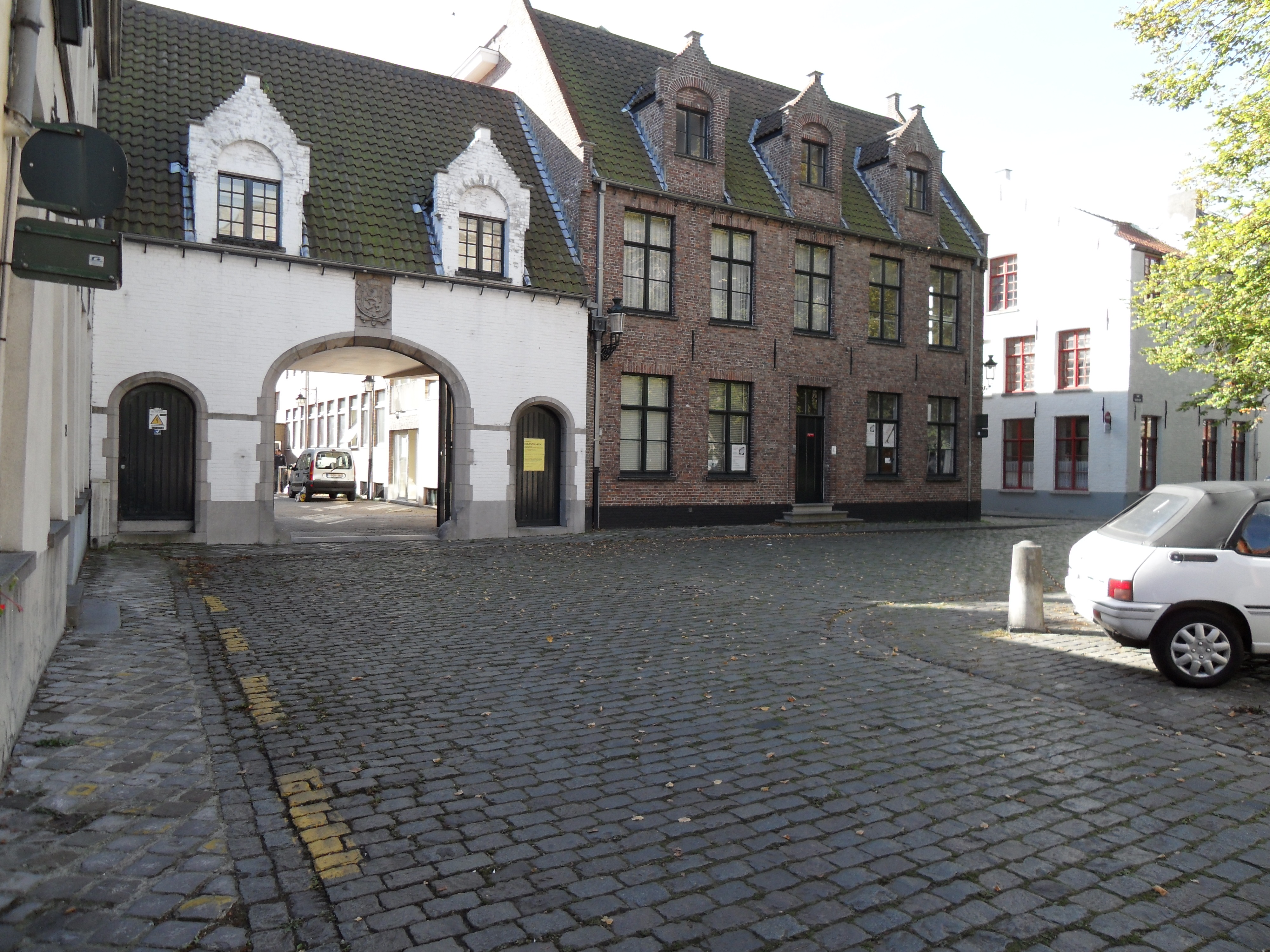 Kadaster